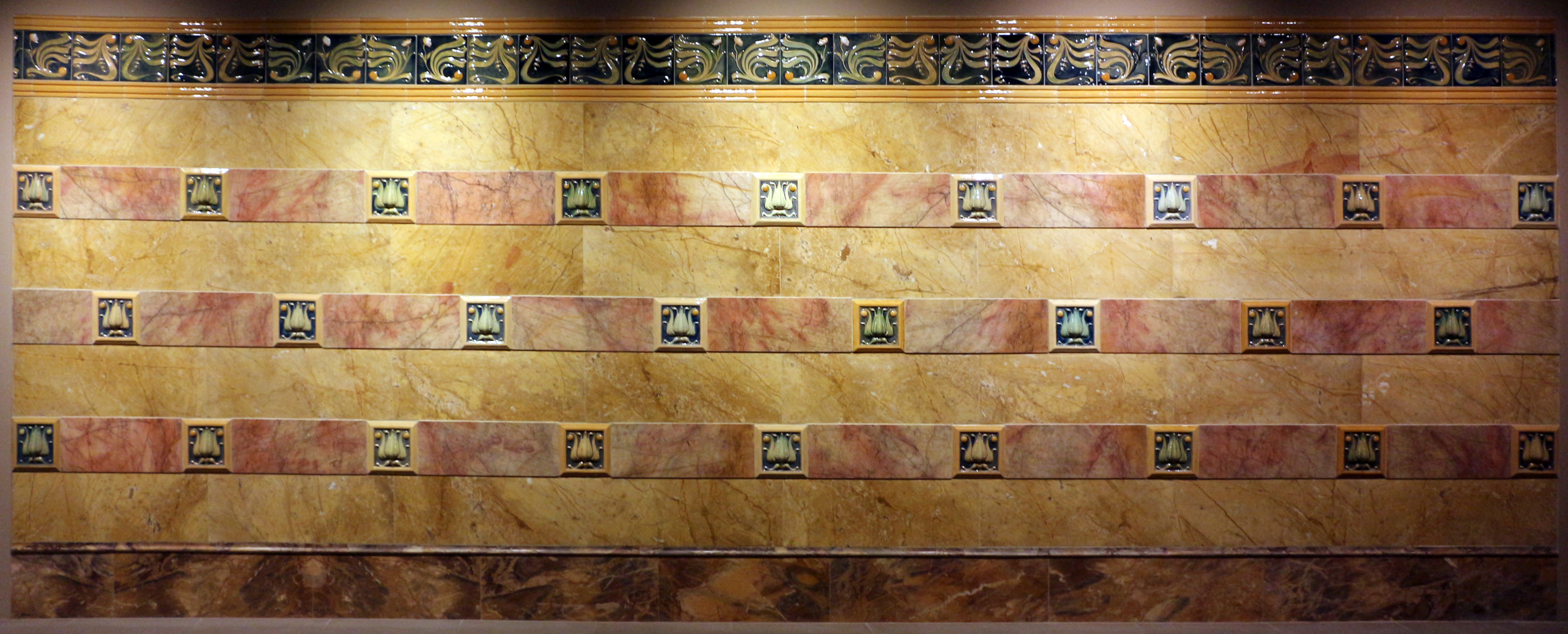 Faience from the Château Royal d'Ardenne in the Fin-de-Siècle Museum